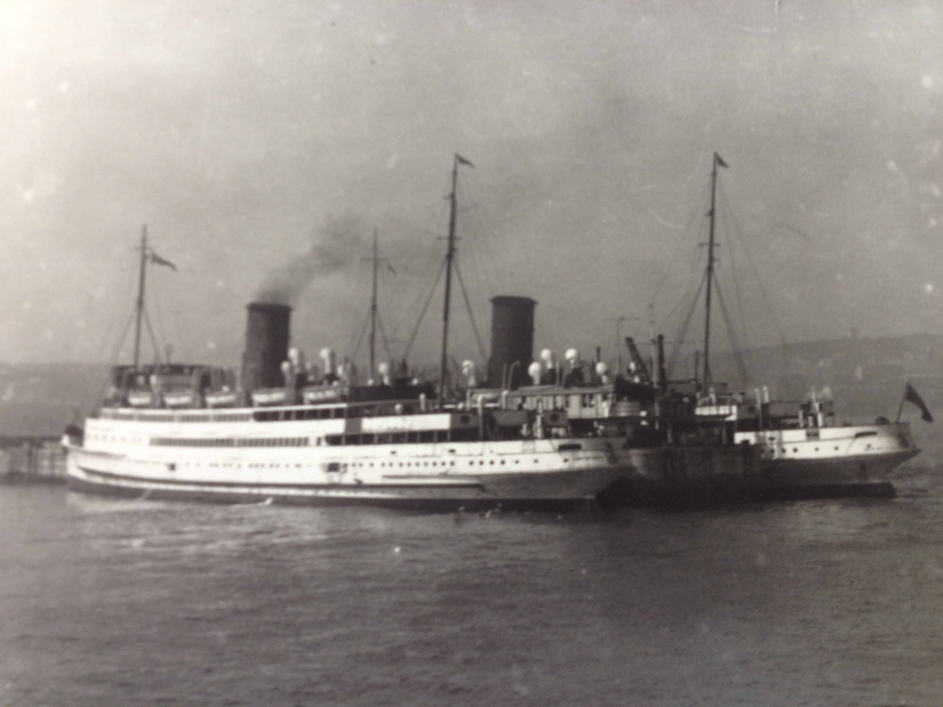 The Isle of Man Steam Packet Company steamers Lady of Mann (left) and Ben-my-Chree (right), pictured alongside the Victoria Pier in their 1930's summer livery of white and green.